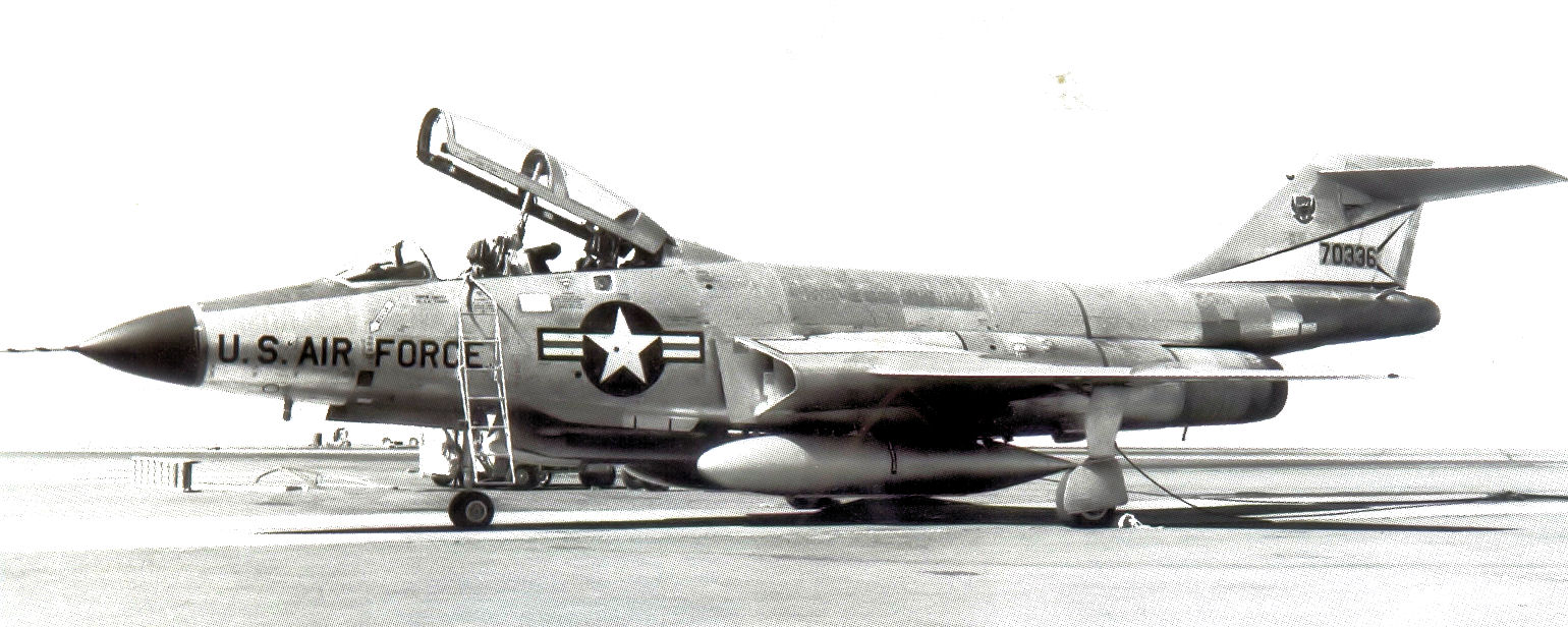 13th Fighter-Interceptor Squadron McDonnell F-101B-90-MC Voodoo 57-0336 Glasgow AFB, Montana September 1962. Converted to RF-101B 1971 and turned over to the 192d TRS of the Nevada Air National Guard. Retired to AMARC 1975.